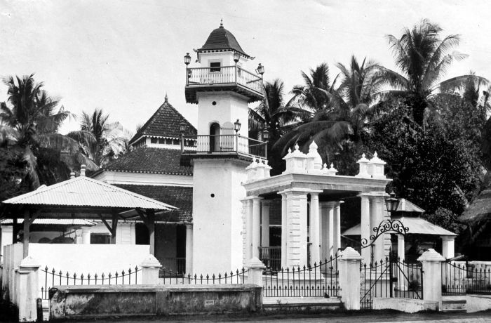 Mosque near Makassar